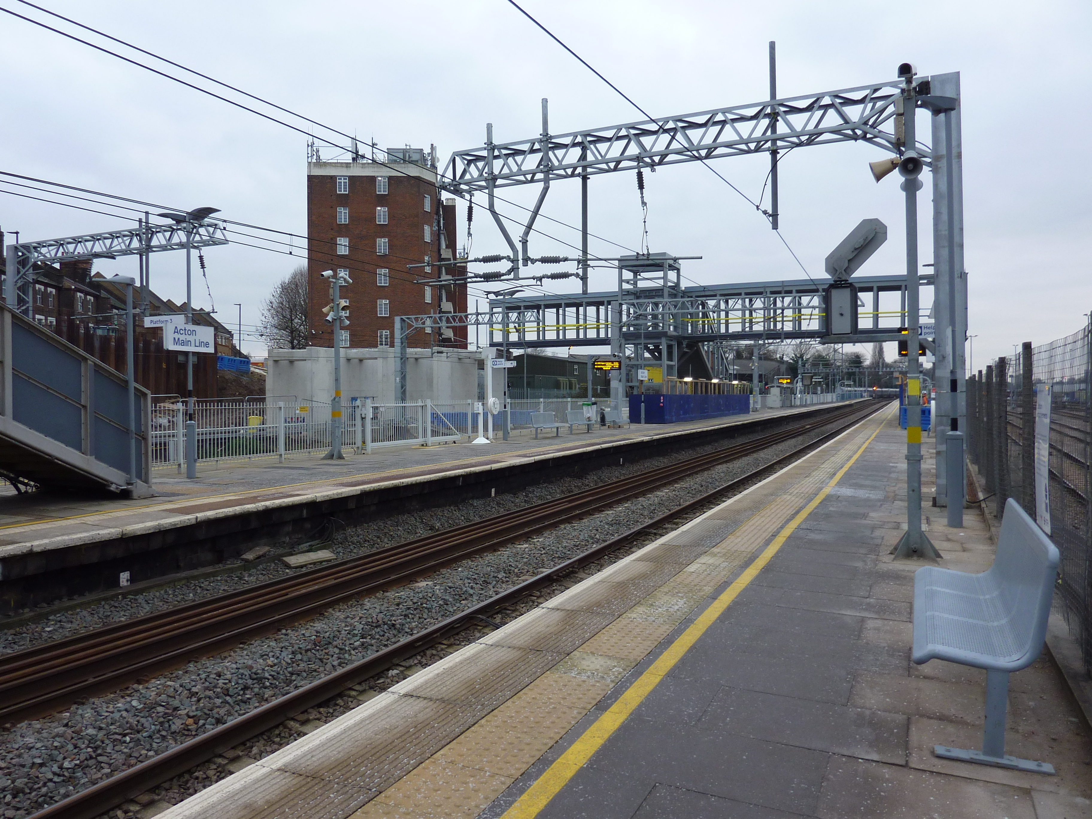 Platform 4 at Acton Main Line railway station in London, England. The footbridge and new station building are currently (as of March 2019) under construction.